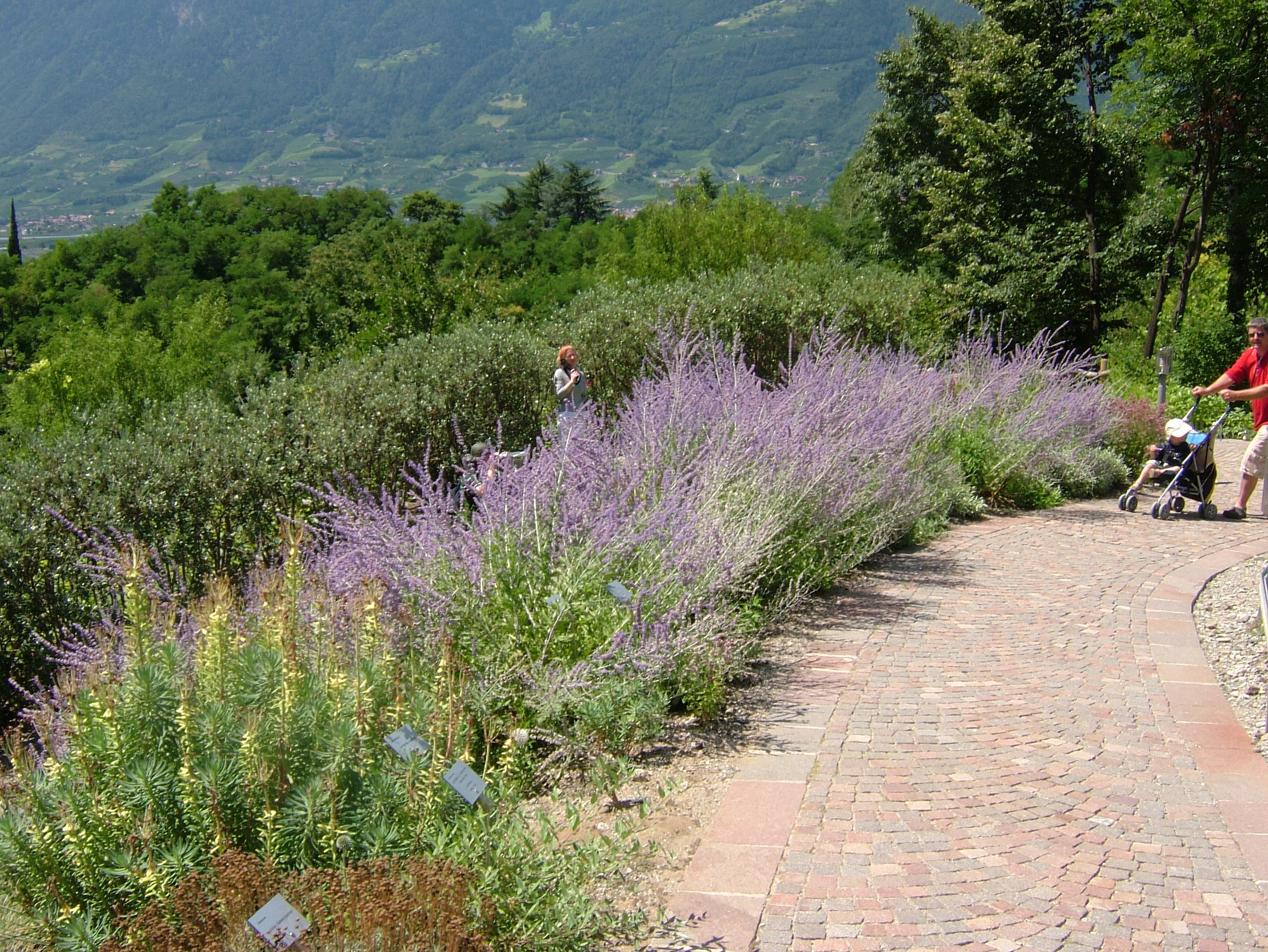 Perovskia atriplicifolia (the blue-flowering border plants) Botanical Garden Meran Water- and Terraces Gardens